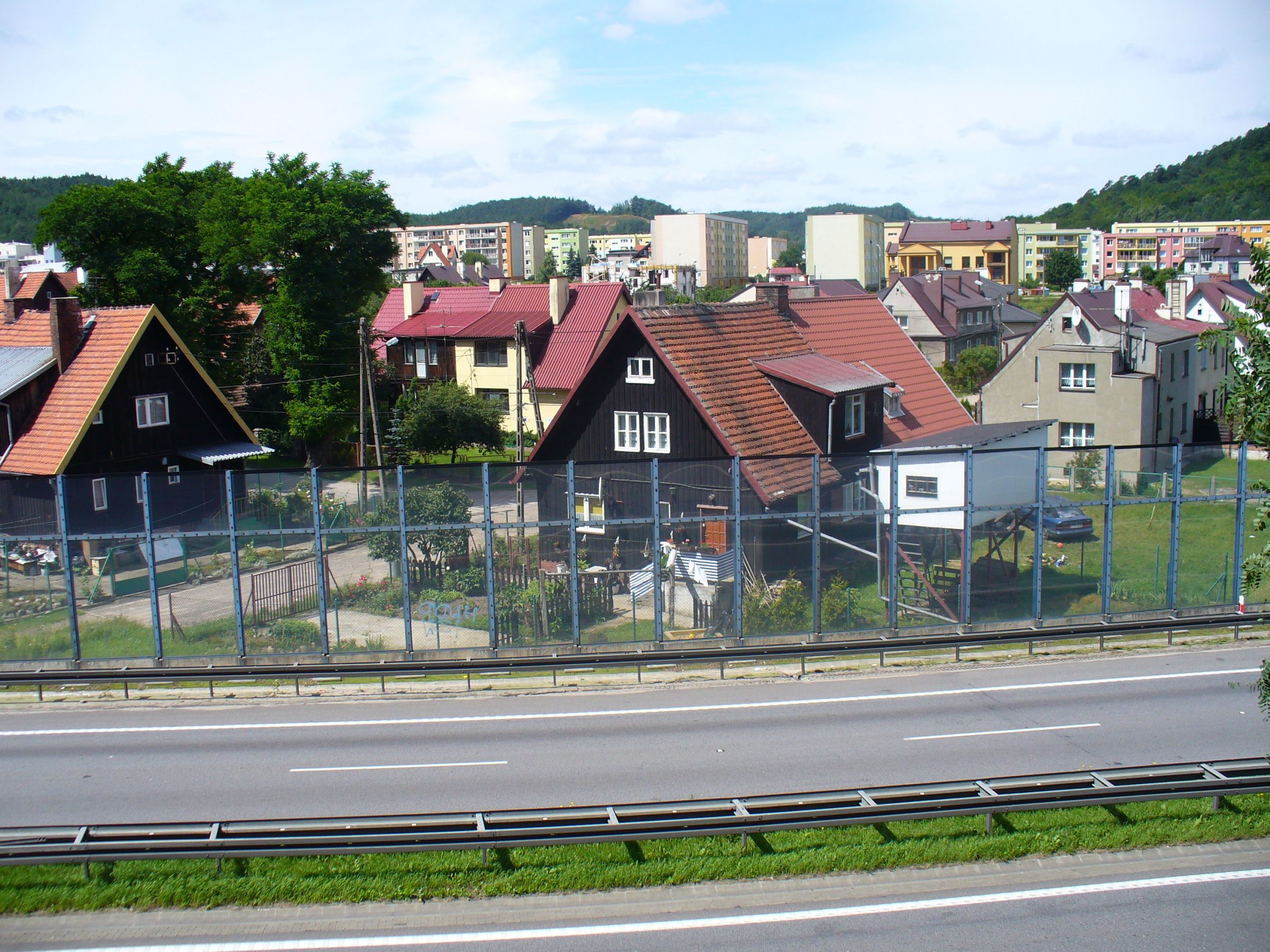 Gdynia